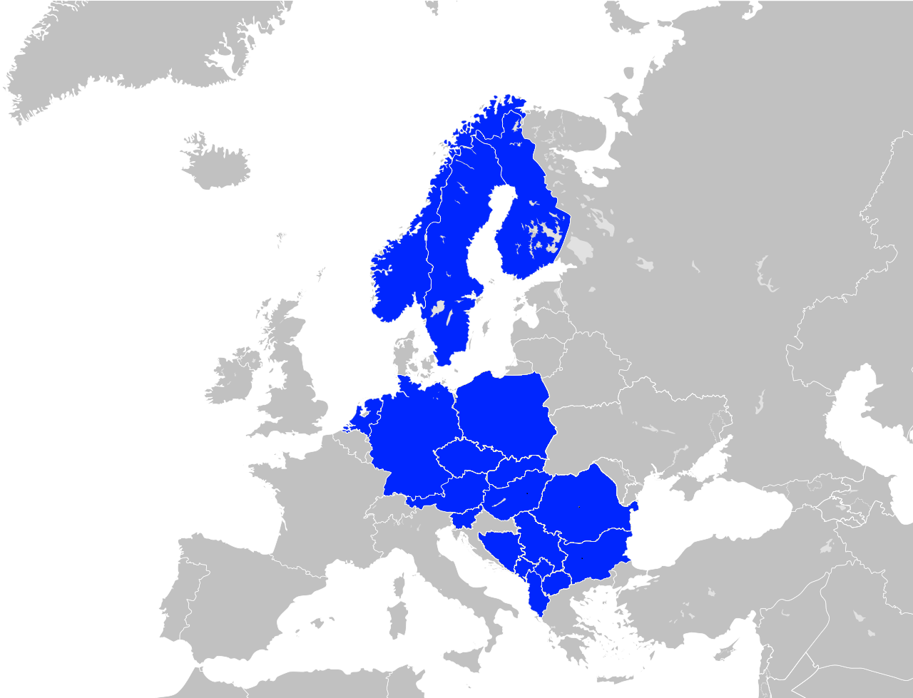 Countries on Europe where the Romani language is recognized as a minority language.